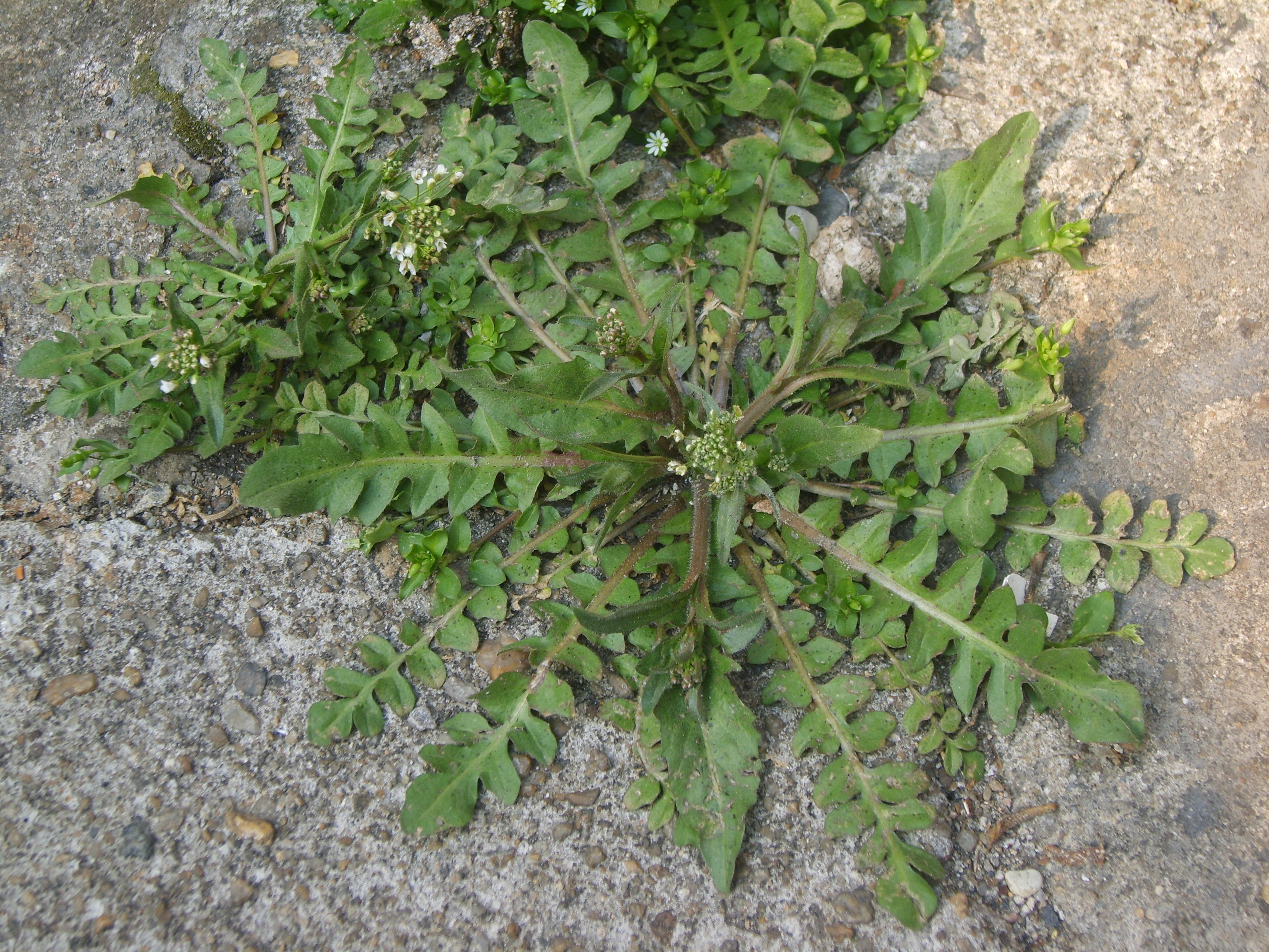 Capsella bursapastoris in spring. Incheon Korea. 집앞에서 찍은 냉이. 꽃 피다.